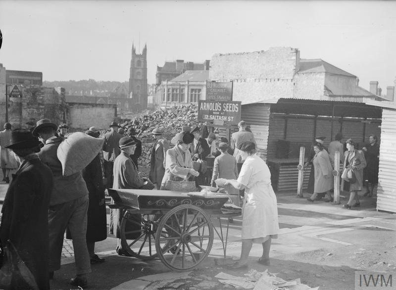 Men and women shop at a stall and in corrugated iron sheds which have been erected in place of shops that were destroyed during an air raid. Amid the rubble, signs advertising the new locations of various shops state that B J Woodrow, Chemist and Arnold's Seeds have moved to Market Avenue and Saltash Street respectively.